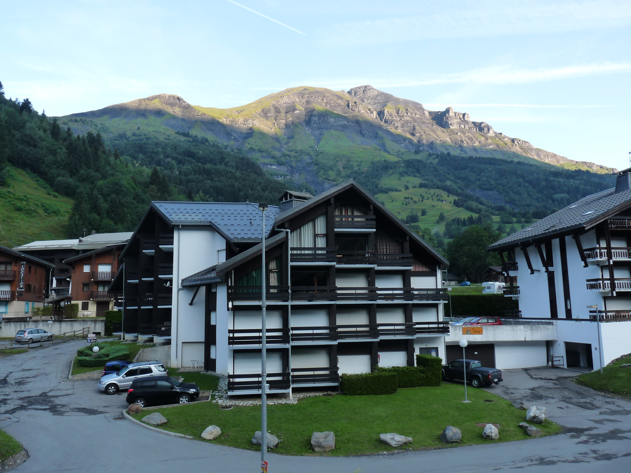 The peak of Mont Joly from the village of Les Contamines-Montjoie, France. This gives a demonstration of the typical terrain surrounding the village. The foreground building is also one of the area's typical sets of ski-apartments